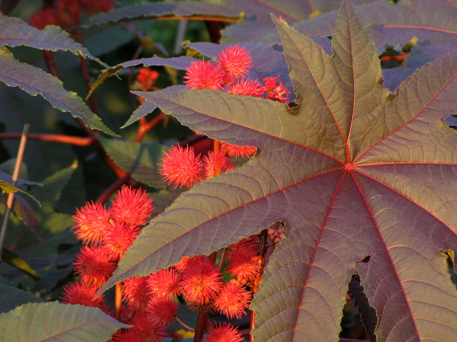 Ricinus communis, cultivated, National Botanic Garden, Washington, DC